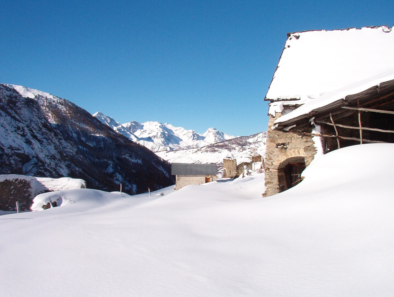 Valle Argentera - Piedmont - Italy